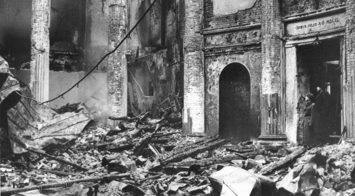 Photograph of the main auditorium in the Main Building of Helsinki University, after the bombing in February 1944